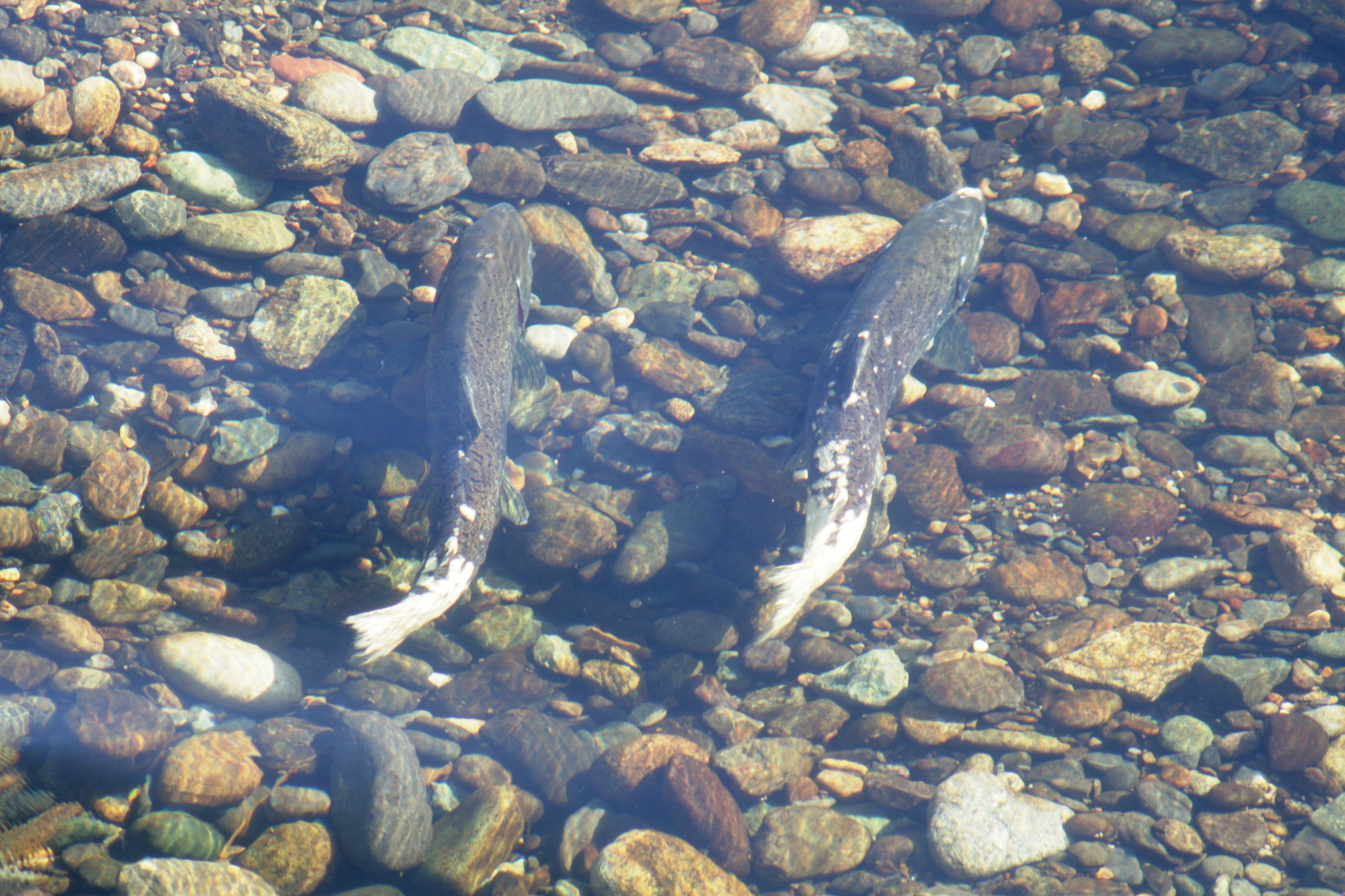 Chinook salmon on the Lower Stanislaus River in Central Valley of California. The Chinook salmon (Oncorhynchus tshawytscha) is an anadromous fish that is the largest species in the salmon family. Chinook salmon range from San Francisco Bay in California to north of the Bering Strait in Alaska, and the waters of Canada and Russia. They are highly valued, mostly due to their relative scarcity, compared to other salmon along the Pacific Coast. Nine populations are listed under the U.S. Endangered Species Act as either threatened or endangered, including the fall runs found in California's Bay-Delta.